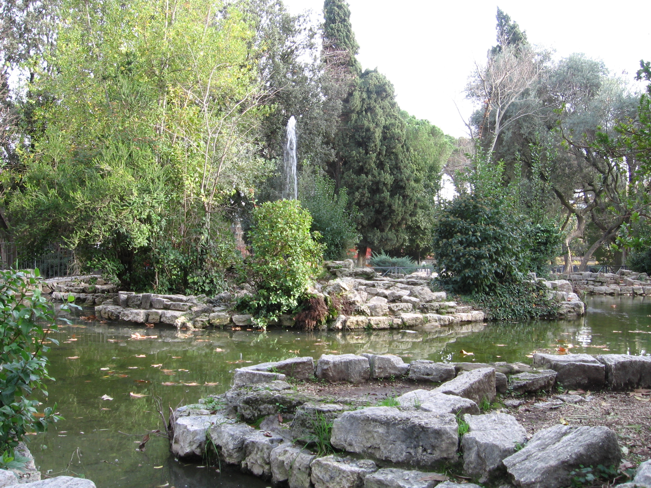 Raffaele de Vico - Parco Nemorense in Roma (Detail of the pond)